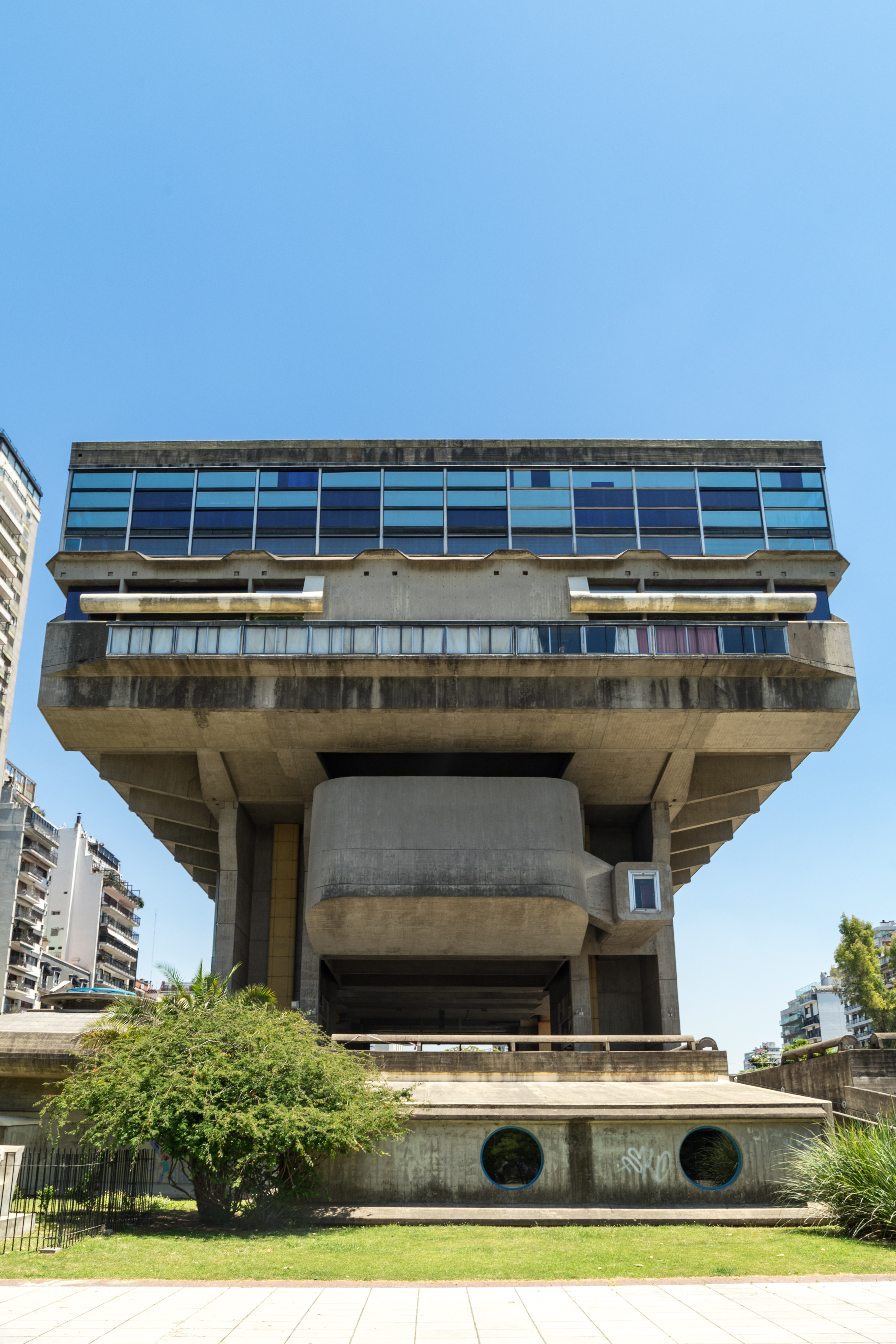 National Library of the Argentine Republic, 2016